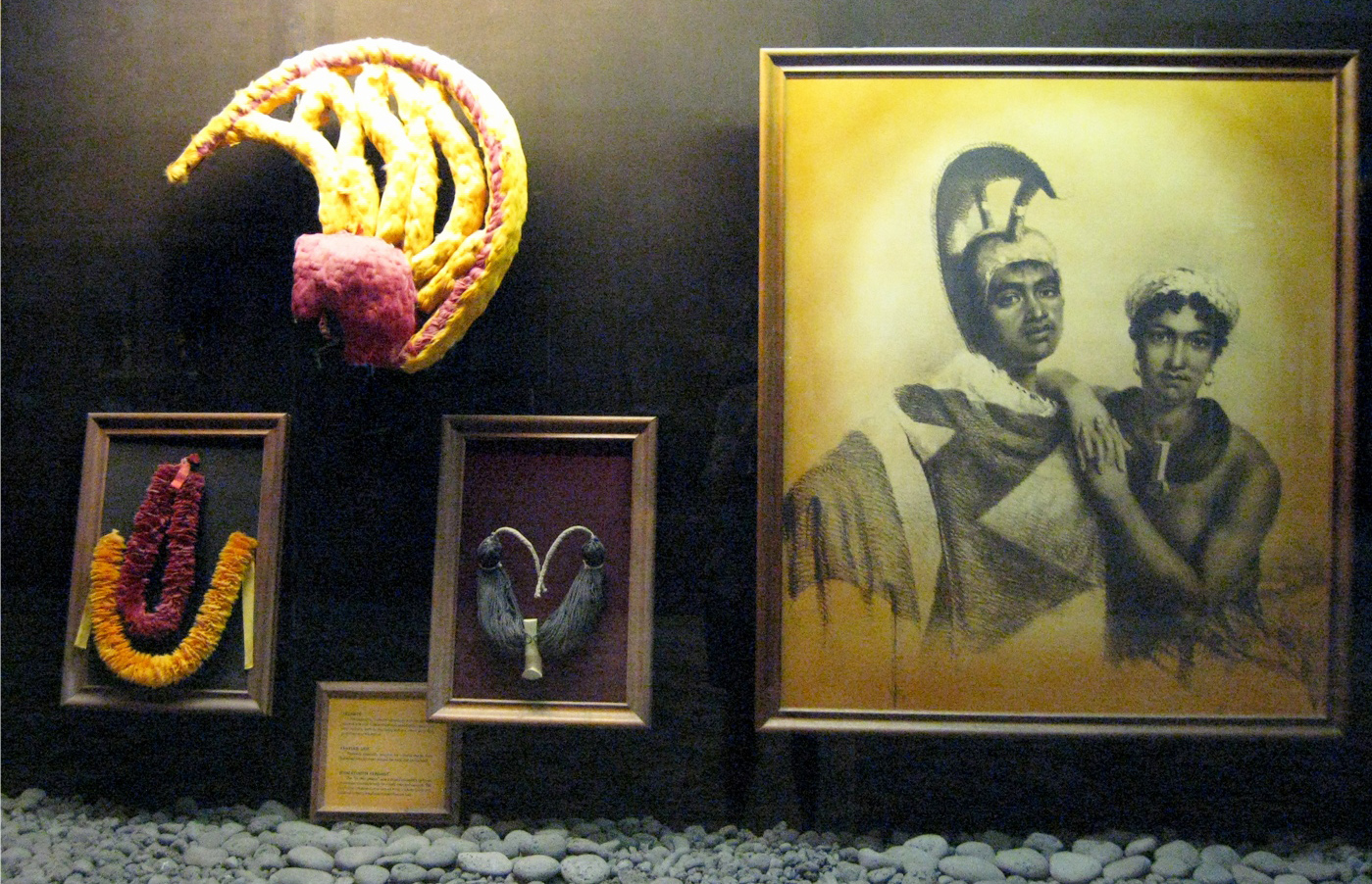 Artifacts on display in the lobby of King Kamehameha's Kona Beach Hotel, in Kailua-Kona. Former site of Kamakahonu, his royal residence. Portrait shows High Chiefess Liliha and High Chief Boki.